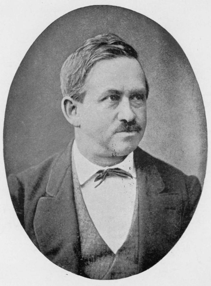 Salomon Bleuler-Hausheer, mayor of Winterthur